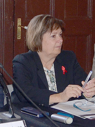 L’Associació Àmbit B30, presidida per l’alcalde de Mollet, Josep Monràs, ha celebrat el Consell General en el qual s’ha aprovat, entre d’altres temes, treballar en col·laboració amb la Generalitat en el marc del projecte europeu RIS3, que té per objectiu identificar i cooperar en la promoció de sectors competitius en el territori. També es posa en marxa el Fòrum B30 que té com a finalitat consensuar aquelles actuacions prioritàries en l’àmbit de la indústria, la innovació i la manufactura avançada per tal que l’àmbit de la B30 sigui més competitiu. El Plenari, que s’ha celebrat al Centre d’educació ambiental Can Coll de Cerdanyola del Vallès, ha aprovat l’Informe de gestió del 2014, en el qual s’hi recull la feina dels diferents grups de treball. Concretament s’ha destacat la feina del Grup de Territori, que ha elaborat l’Informe sobre la priorització d’actuacions en infraestructures i mobilitat. En aquest sentit, hi ha prevista una reunió de la Comissió Executiva de l’Àmbit B30 amb la Conselleria de Territori i Sostenibilitat de la Generalitat de Catalunya per tal de parlar sobre aquestes actuacions prioritàries. El Pla de Treball per a 2015 aprovat pel Consell General de l’Associació Àmbit B30 inclou tant el desenvolupament i continuïtat dels projectes encetats al llarg d’aquest any com la posada en marxa de noves línies de treball. En aquest apartat destaquen dos projectes: el projecte RIS3 i la creació del Fòrum B30.